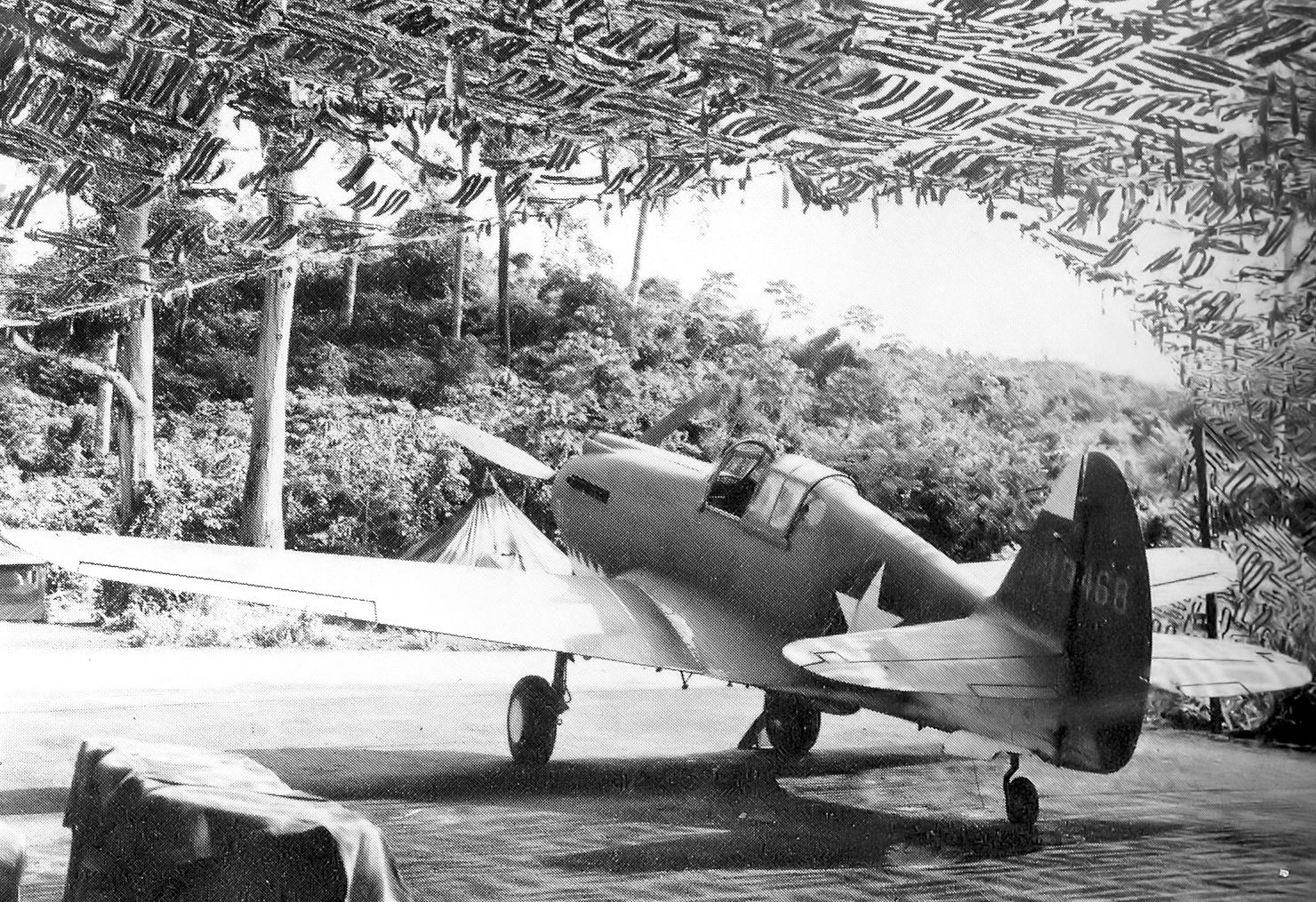 31st Pursuit Squadron Curtiss P-40C 41-13468 (Squadron #91) at La Joya Field #1 Panama, December 1942.